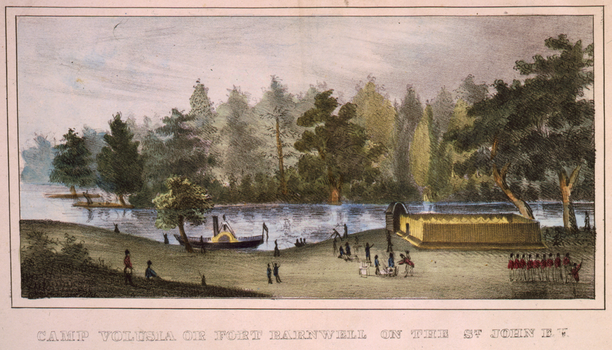 Downloaded from TITLE: Camp Volusia or Fort Barnwell on the St. John E.F. CALL NUMBER: PGA - Gray & James--Camp Volusia ... (A size) [P&P] REPRODUCTION NUMBER: LC-USZC4-2726 (color film copy transparency) LC-USZ62-16518 (b&w film copy neg.) RIGHTS INFORMATION: No known restrictions on publication. MEDIUM: 1 print : lithograph, hand-colored. CREATED/PUBLISHED: [Charleston, S.C. : T.F. Gray and James, 1837] CREATOR: Gray & James. NOTES: No. 1 in set of 8 "Views of Florida." The State Library and Archives of Florida cites as "Lithographs of events in the Semonole War in Florida in 1835. Issued by T.F. Gray and James of Charleston, S.C., in 1837."